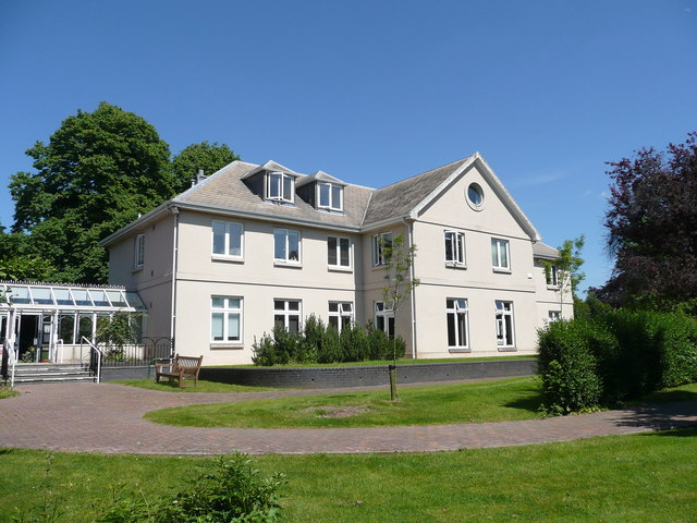 Brockington - Herefordshire Council headquarters Situated off Hafod Road in suburbs east of Hereford city centre.